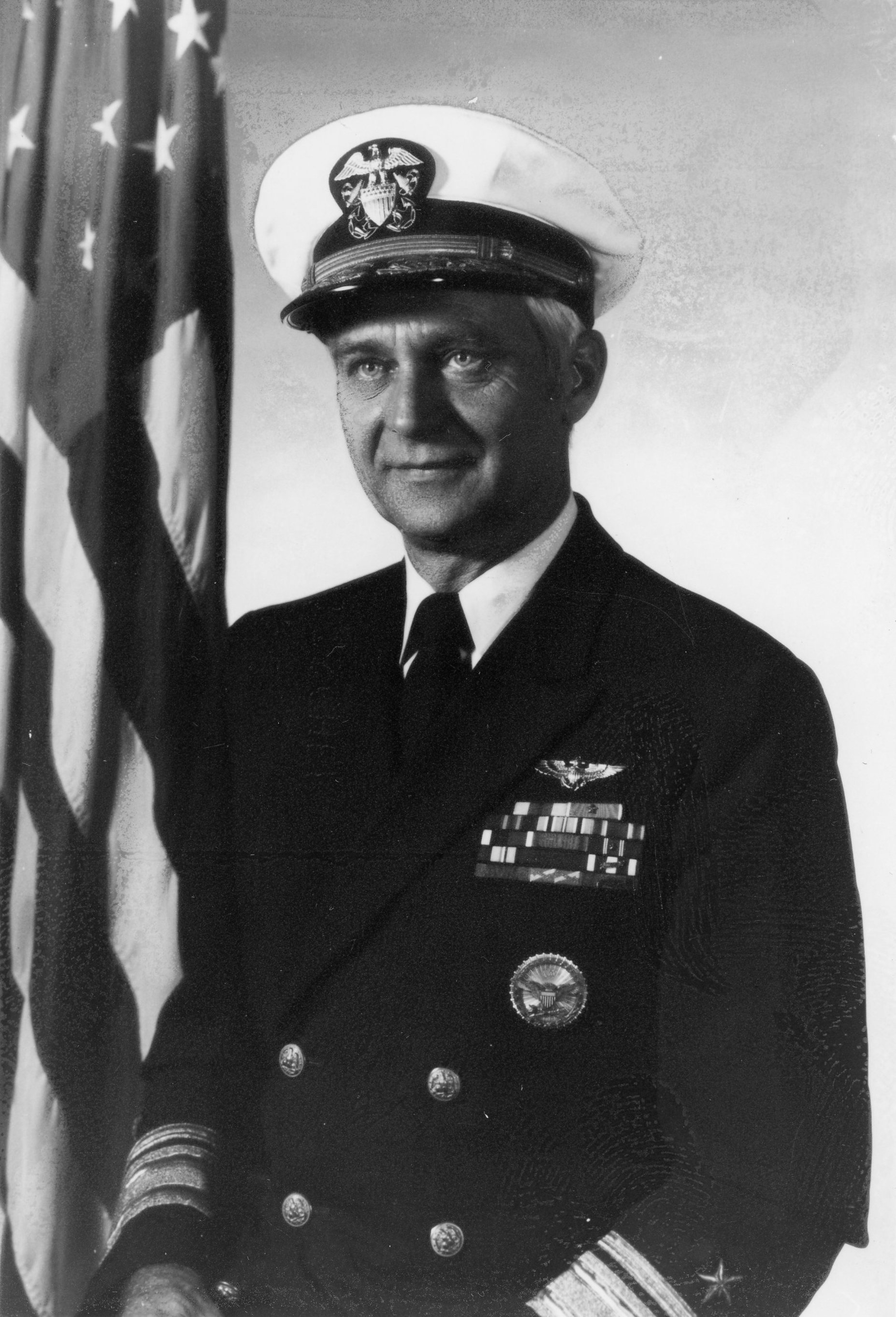 RADM Daniel J. Murphy USN